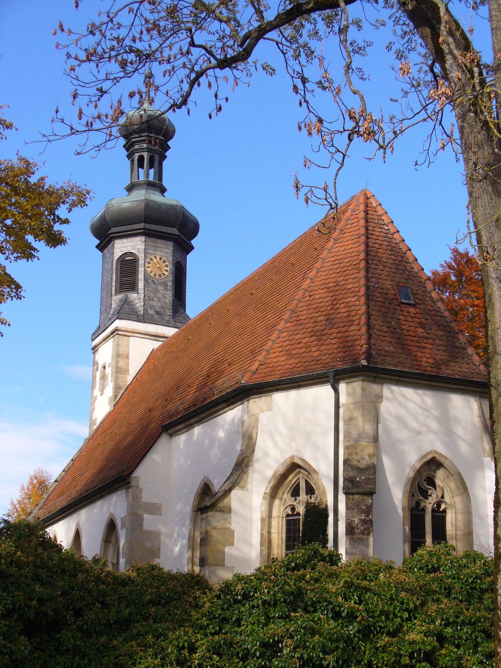 Adelberg Abbey, Ulrichskapelle